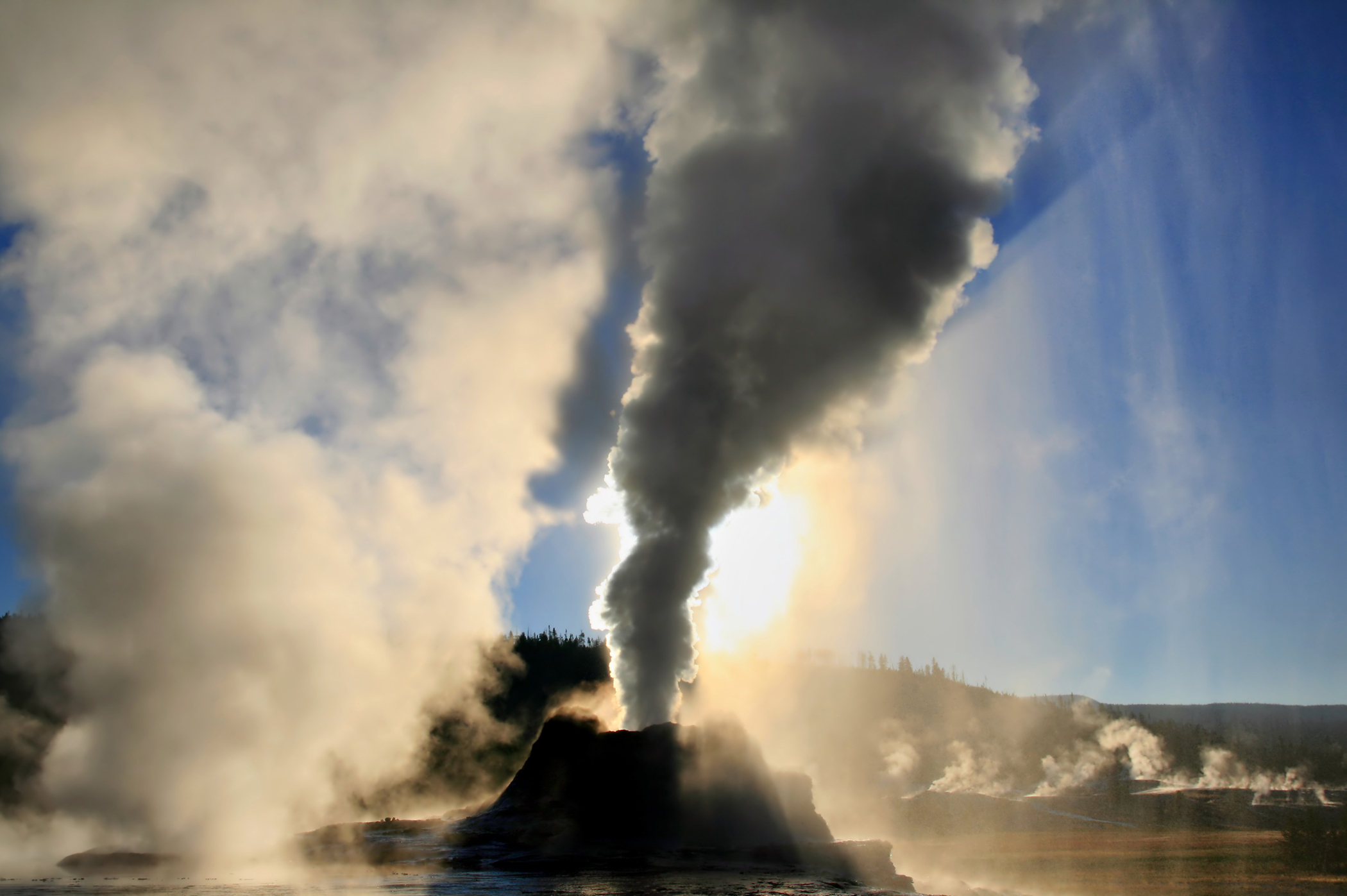 Steam phase eruption of Castle Geyser in Yellowstone National Park casts a shadow on its own steam. Crepuscular rays are also seen. Licensing: Category:Images of Wyoming